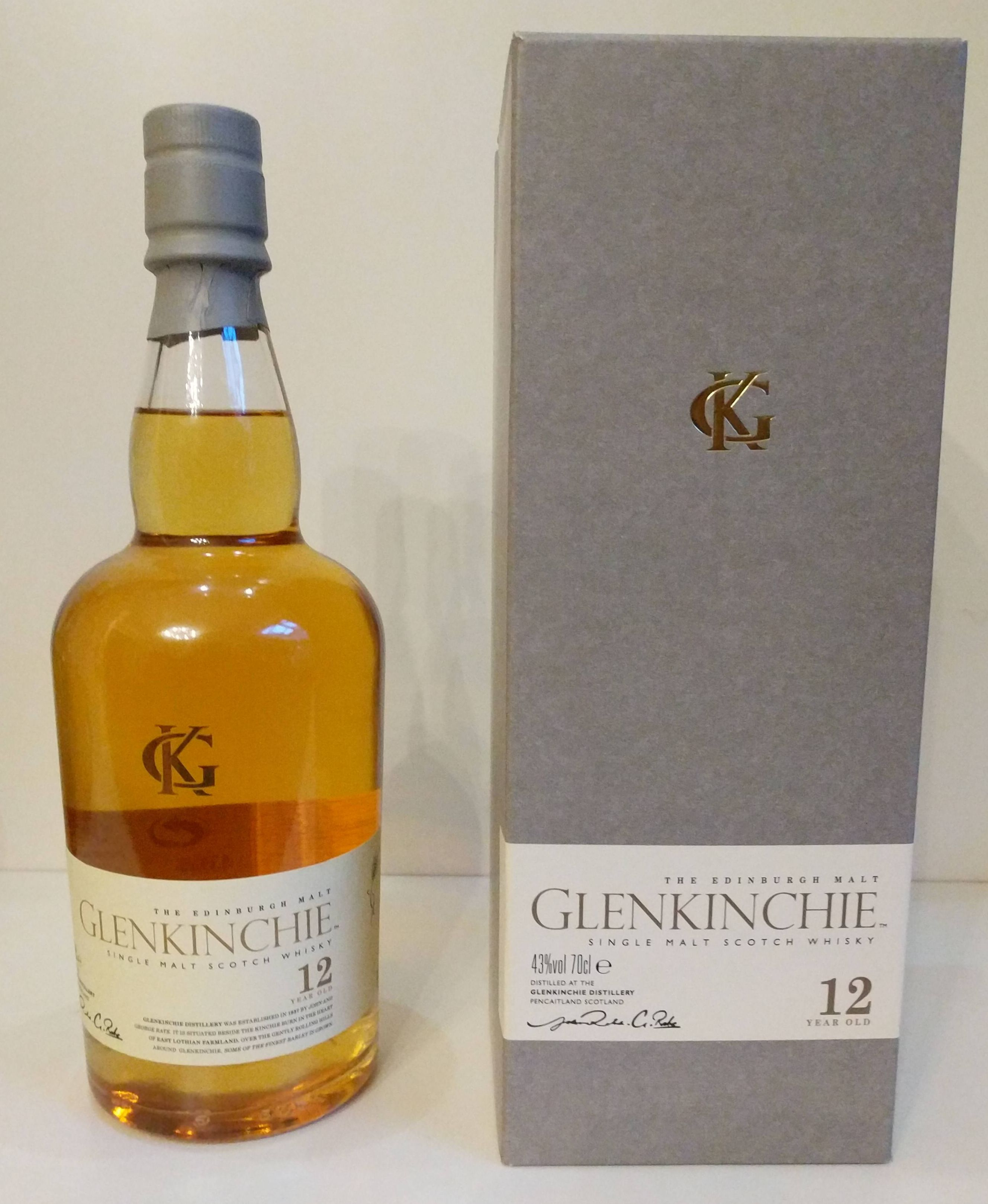 Glenkinchie single malt Scotch whisky 12 year old